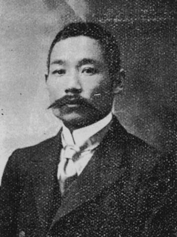 Mr. Takeji Kinoshita, director of the Kagoshima Prefectural Second Girls' High School.